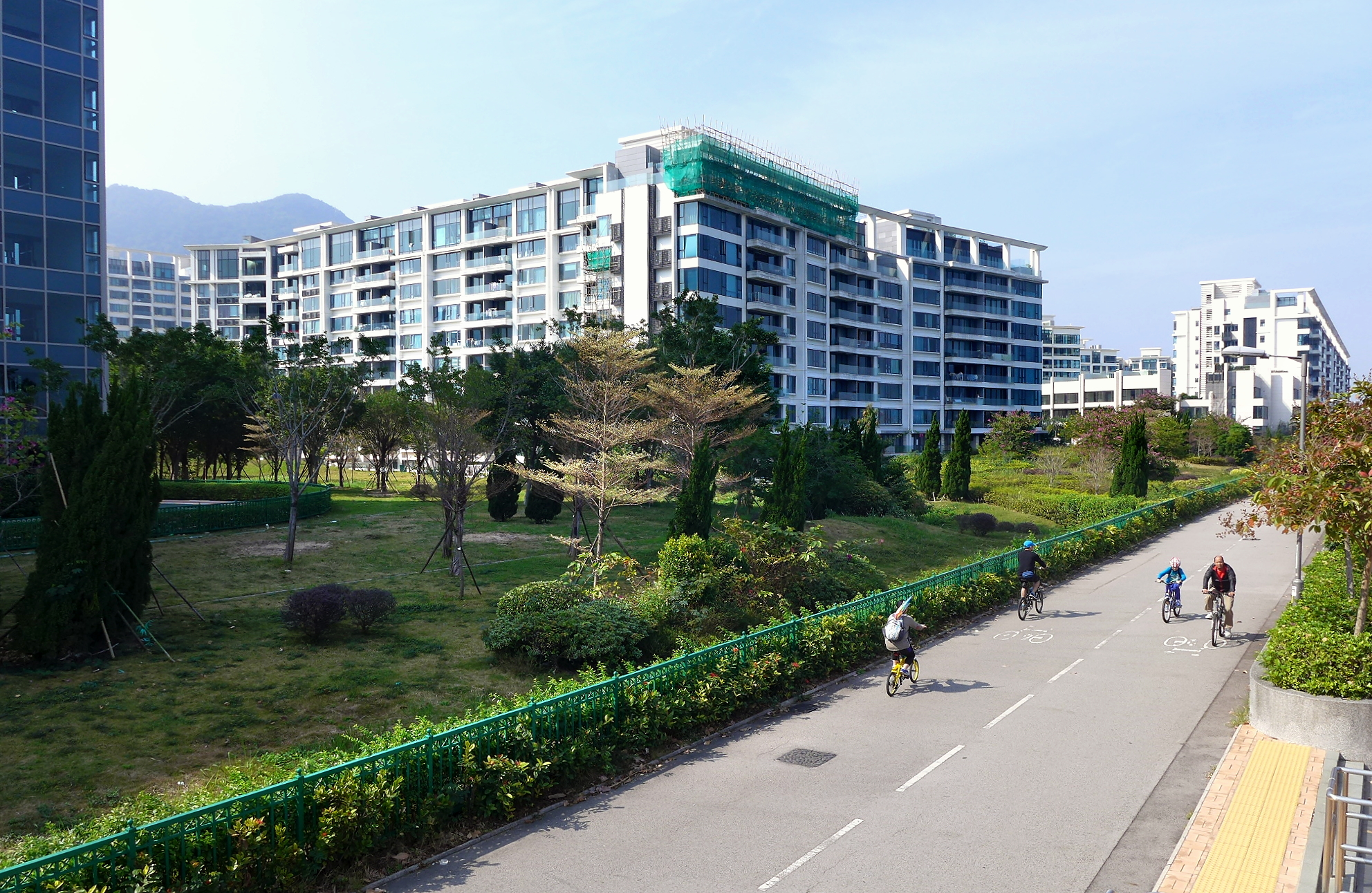 The Graces